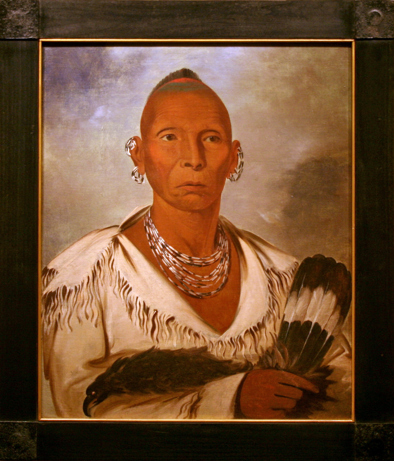 Oil on canvas portrait of Black Hawk (Múk-a-tah-mish-o-káh-kaik, a Sauk chief); original size without frame 73.7×60.9 cm.